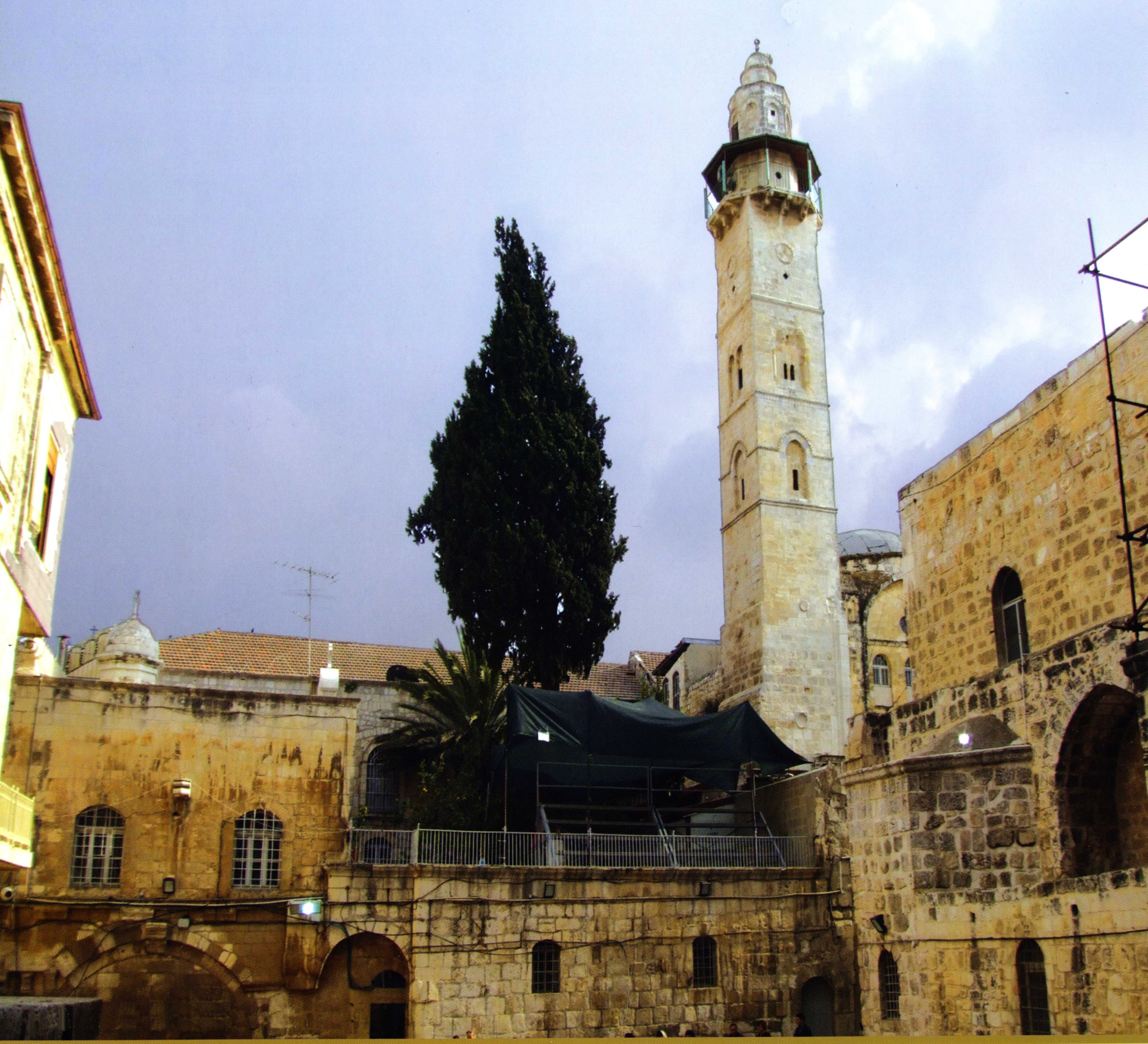 Umar Mosque in Jerusalem.